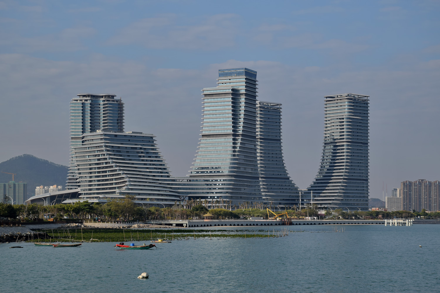 Xiamen Center (Southeast International Shipping Center Headquarters Building), Haicang CBD, Xiamen)